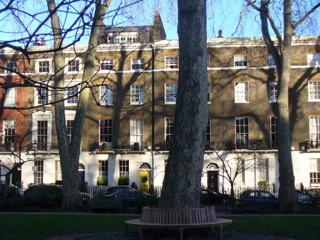 Connaught Square Garden Looking eastwards, across the private garden, to exclusive four-storey, terraced Georgian town houses.